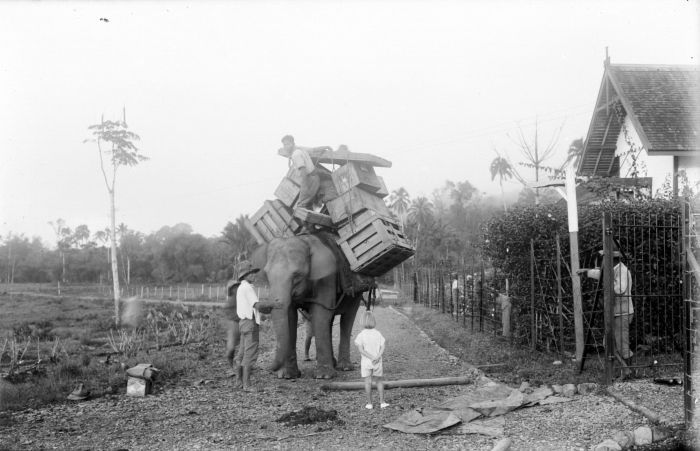 Elephant used for military and freight transport Tangse and Geumpang, Aceh